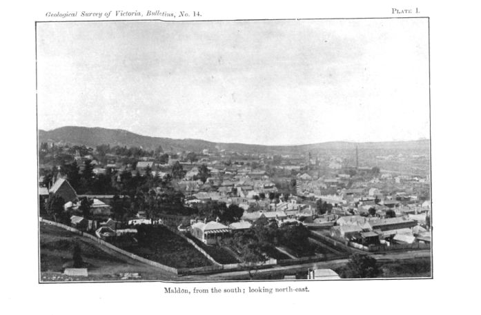 Victoria Geol. Survey 1904, Government and CR expired anyway.